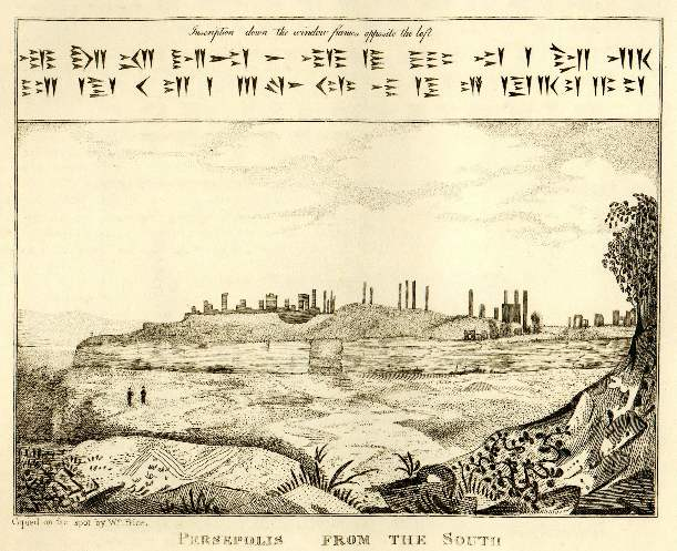 Persepolis by Jean Chardin and al